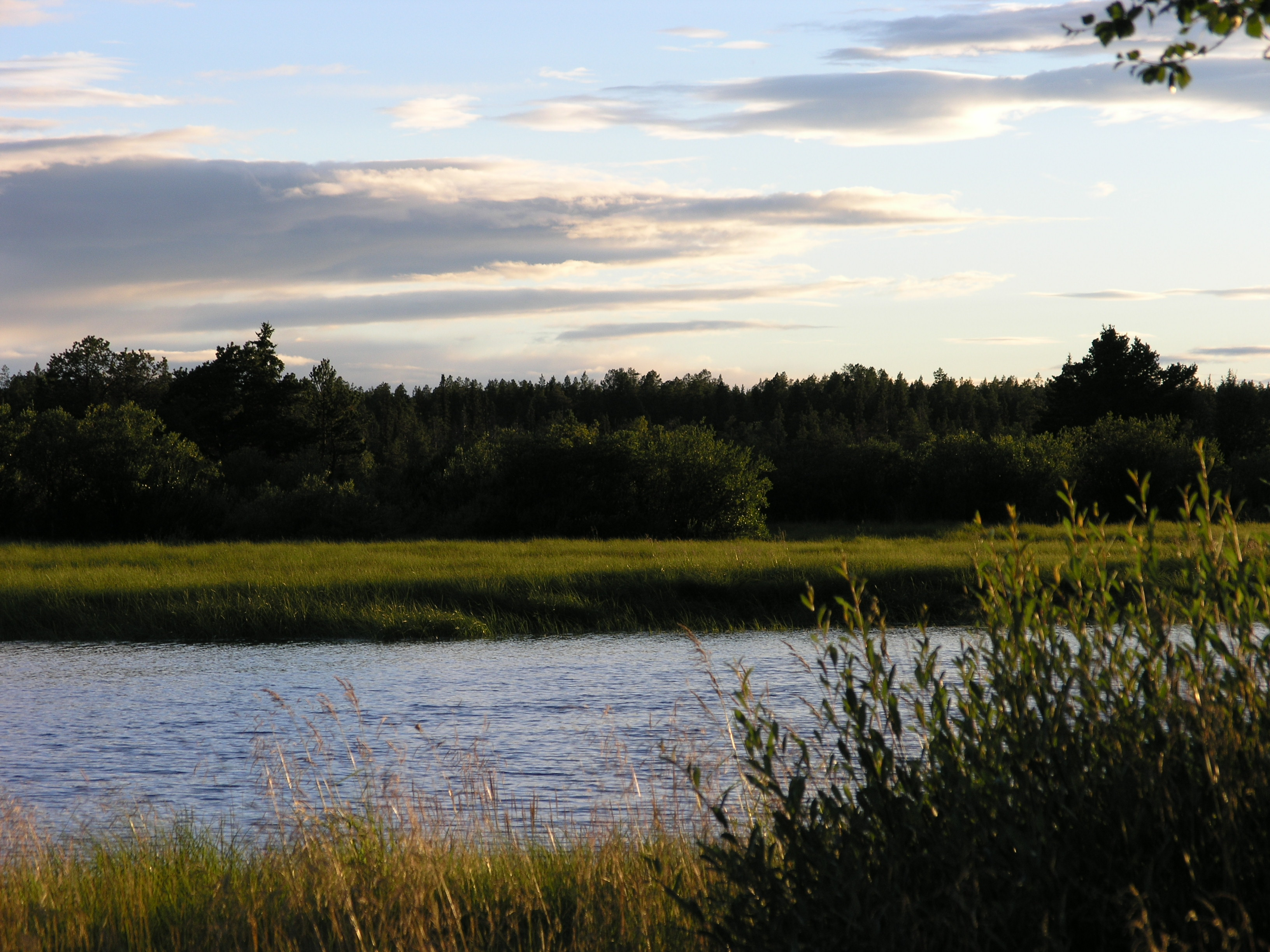 River Tornio